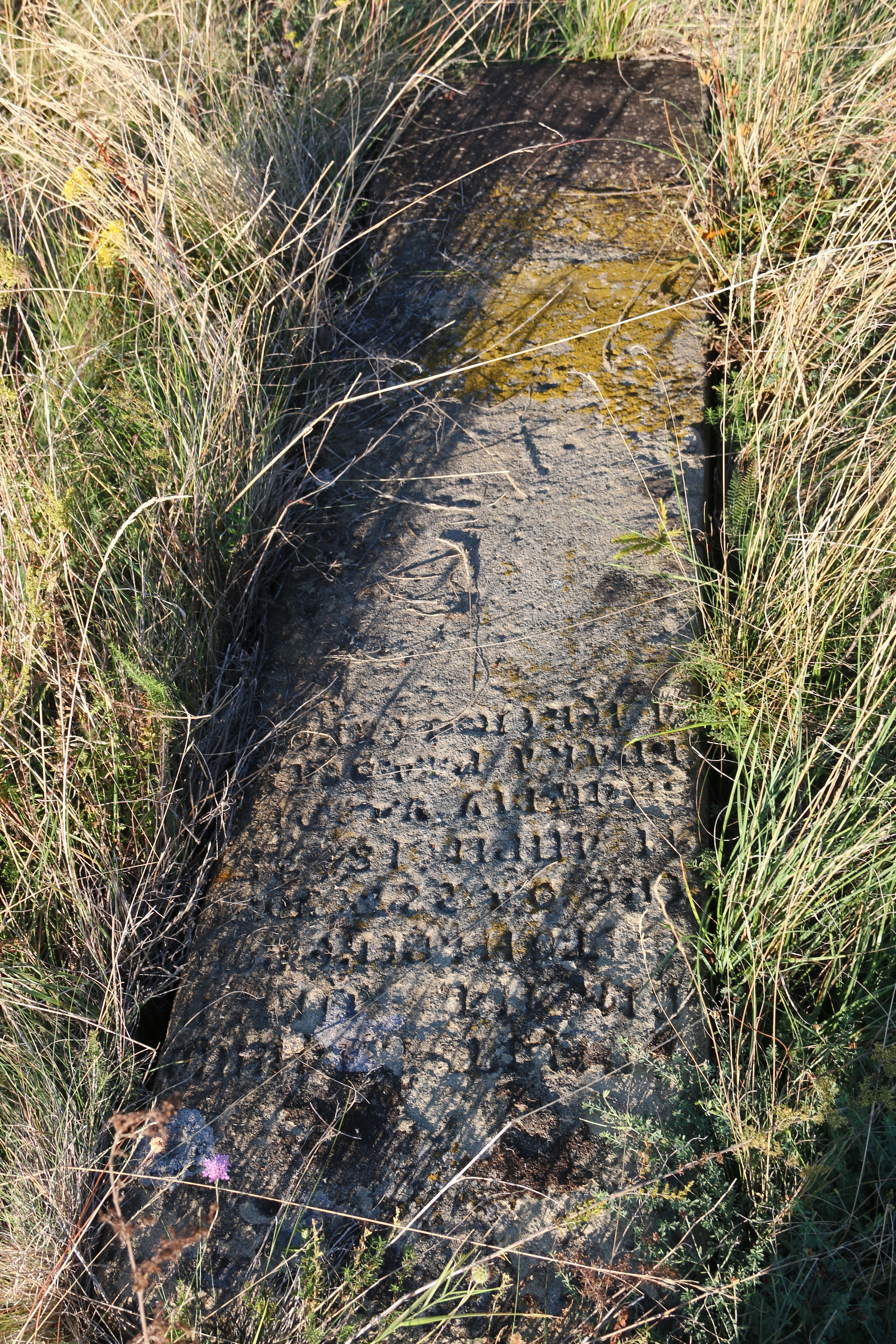 Roadside tombstone erected in memory of Ignjat Vlaskovic in the village of Druzetici (the municipality of Gornji Milanovac), Serbia.